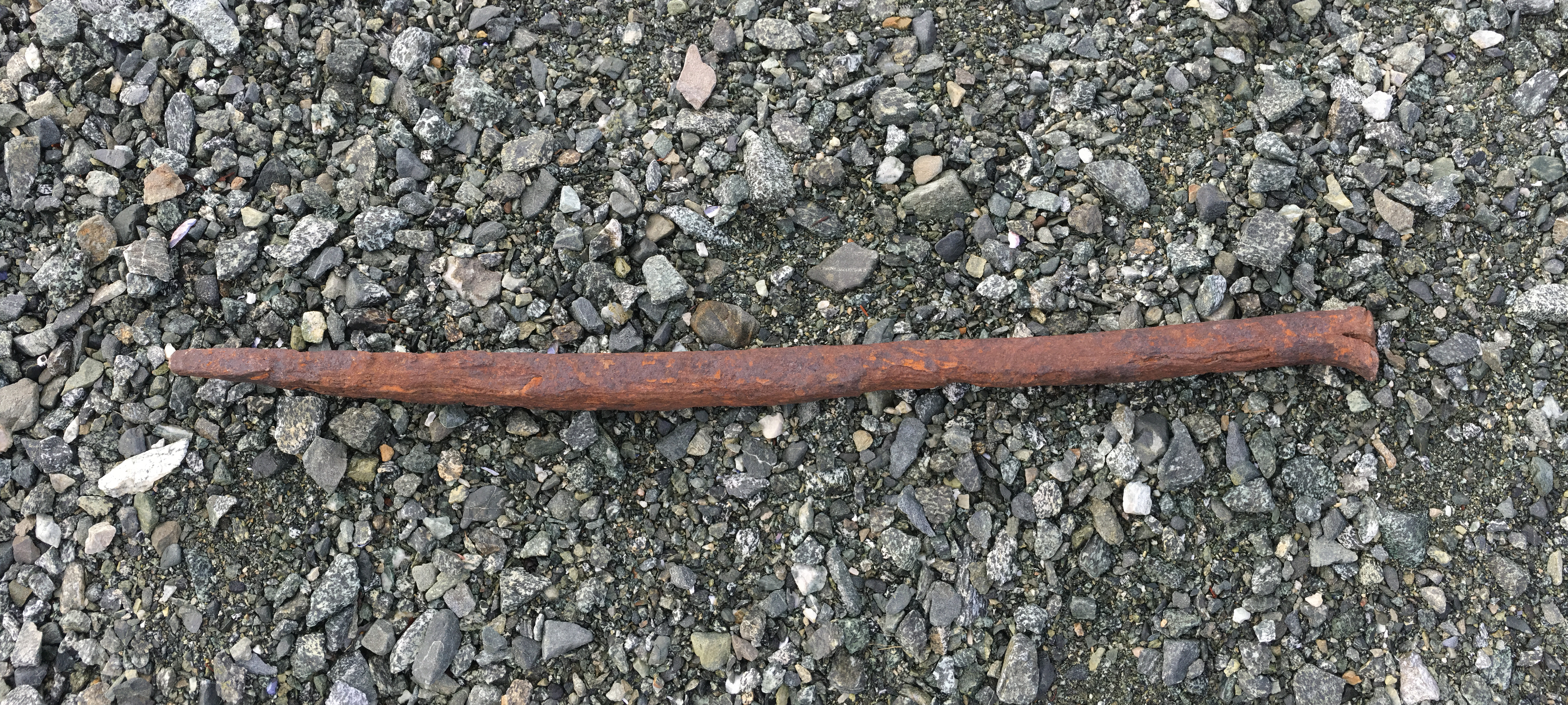 This spike was found 5' down in the ground a few hundred yards behind Lisianski Inlet Lodge, Sunnsyide, near Pelican, Alaska, and may be from a Russian ship.